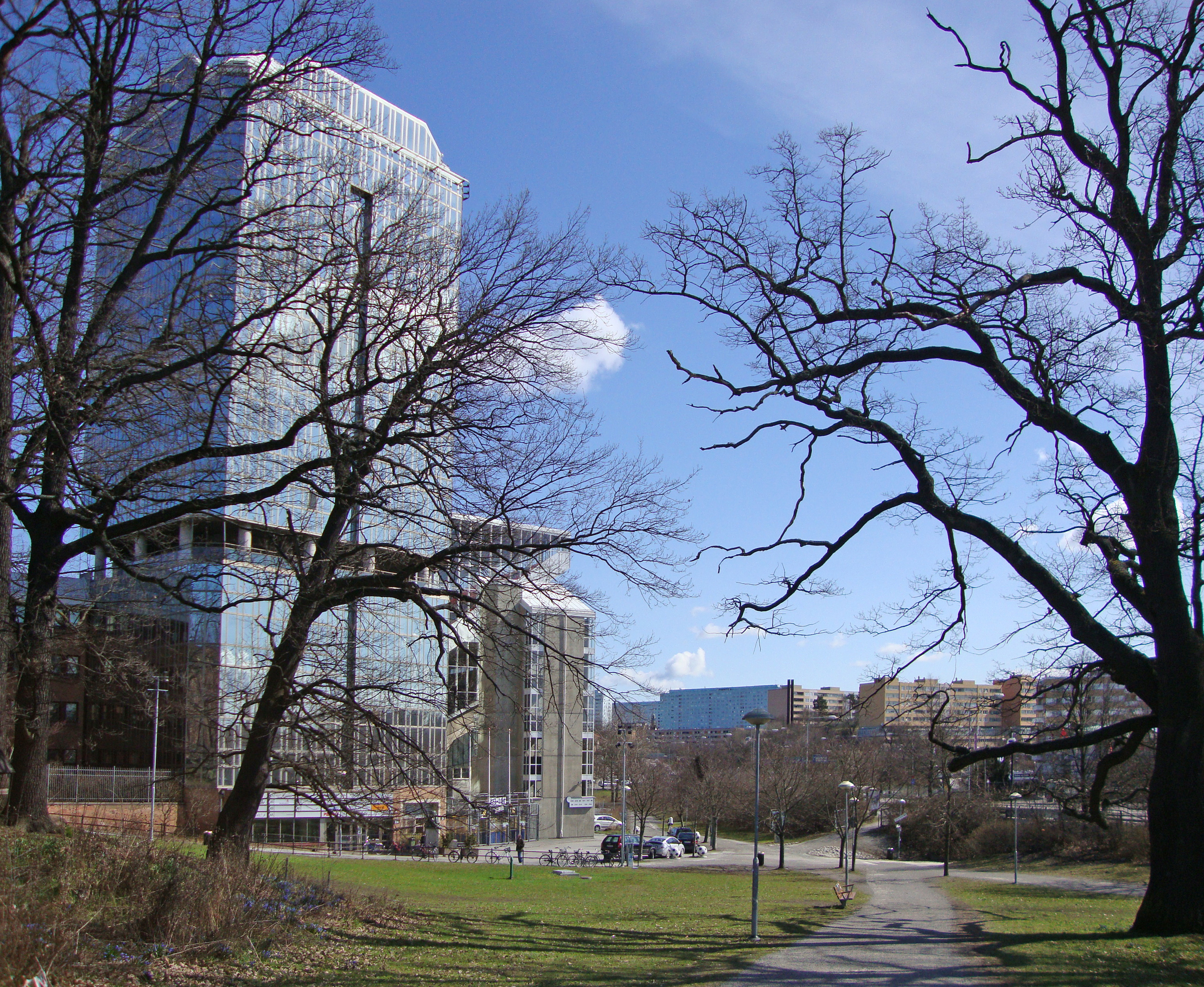 View over Hagalund in Solna with Råsunda Stadium on the left. Spring 2010.